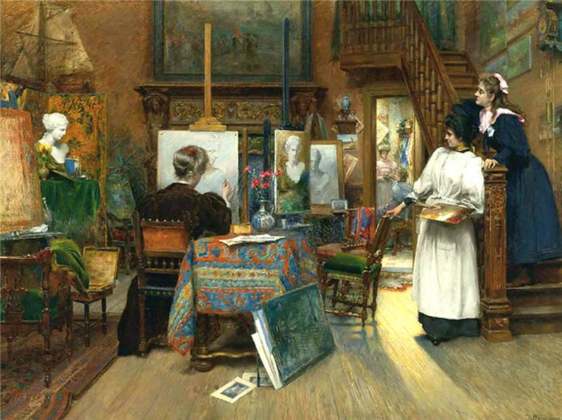 The Female Artists